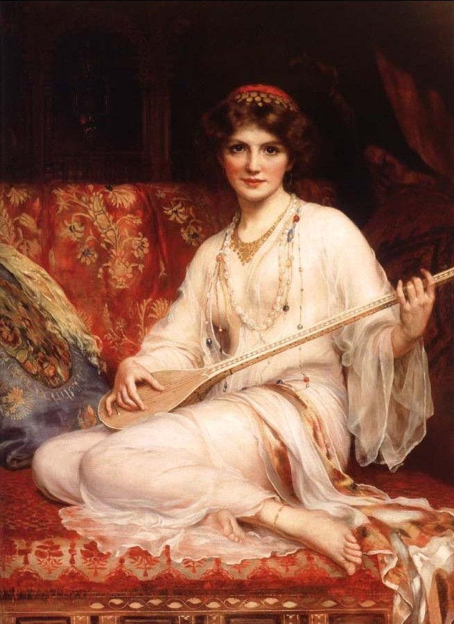 "The Dancing Girl", oil on canvas, 135.9 x 100.7 cm